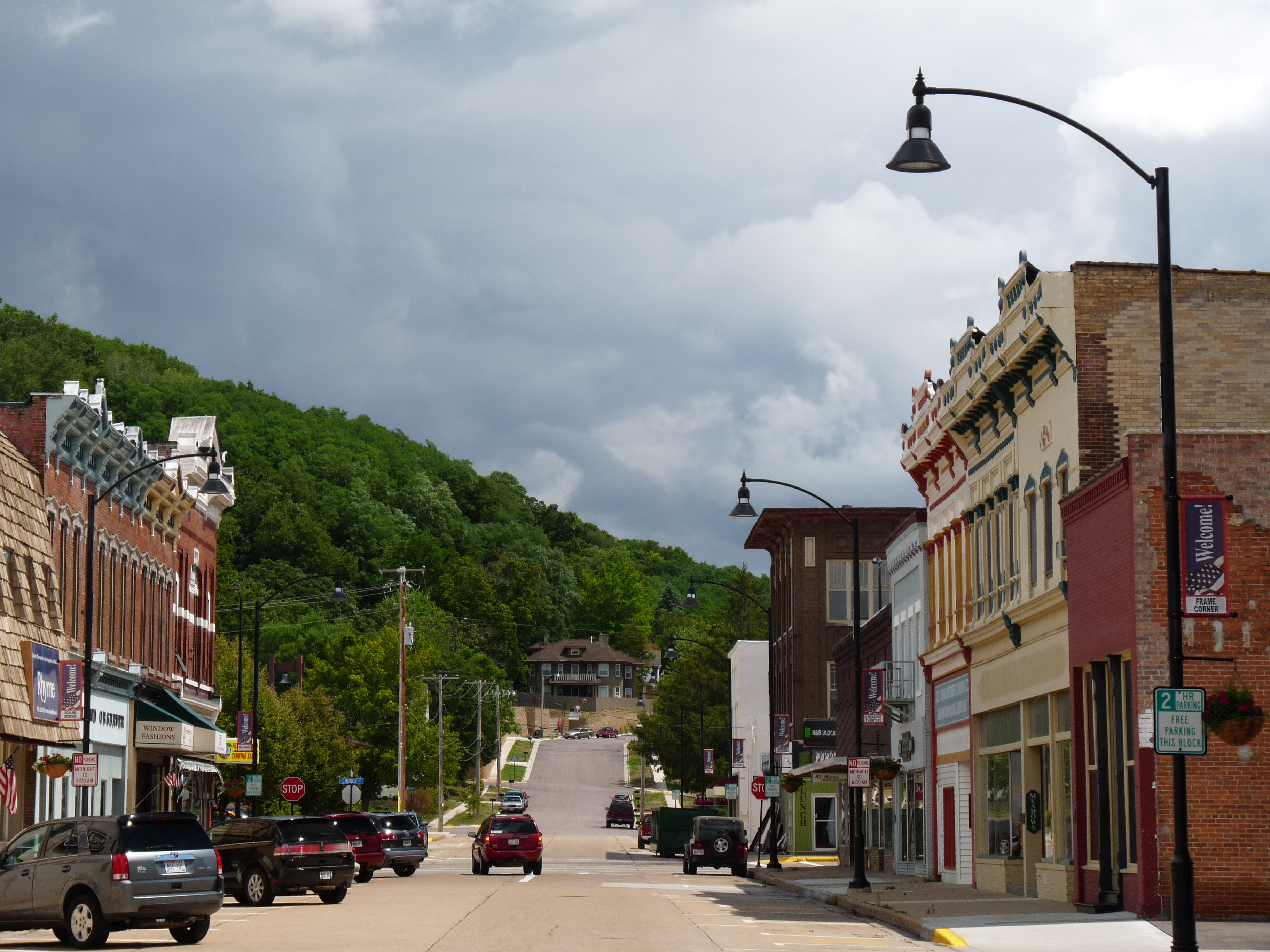 Court Street Commercial Historic District in Richland Center, Wisconsin, was listed on the National Register of Historic Places in 1989.